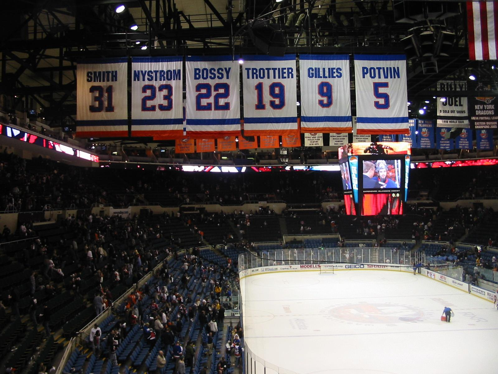 Retired numbers hanging at Nassau Veterans Memorial Coliseum.